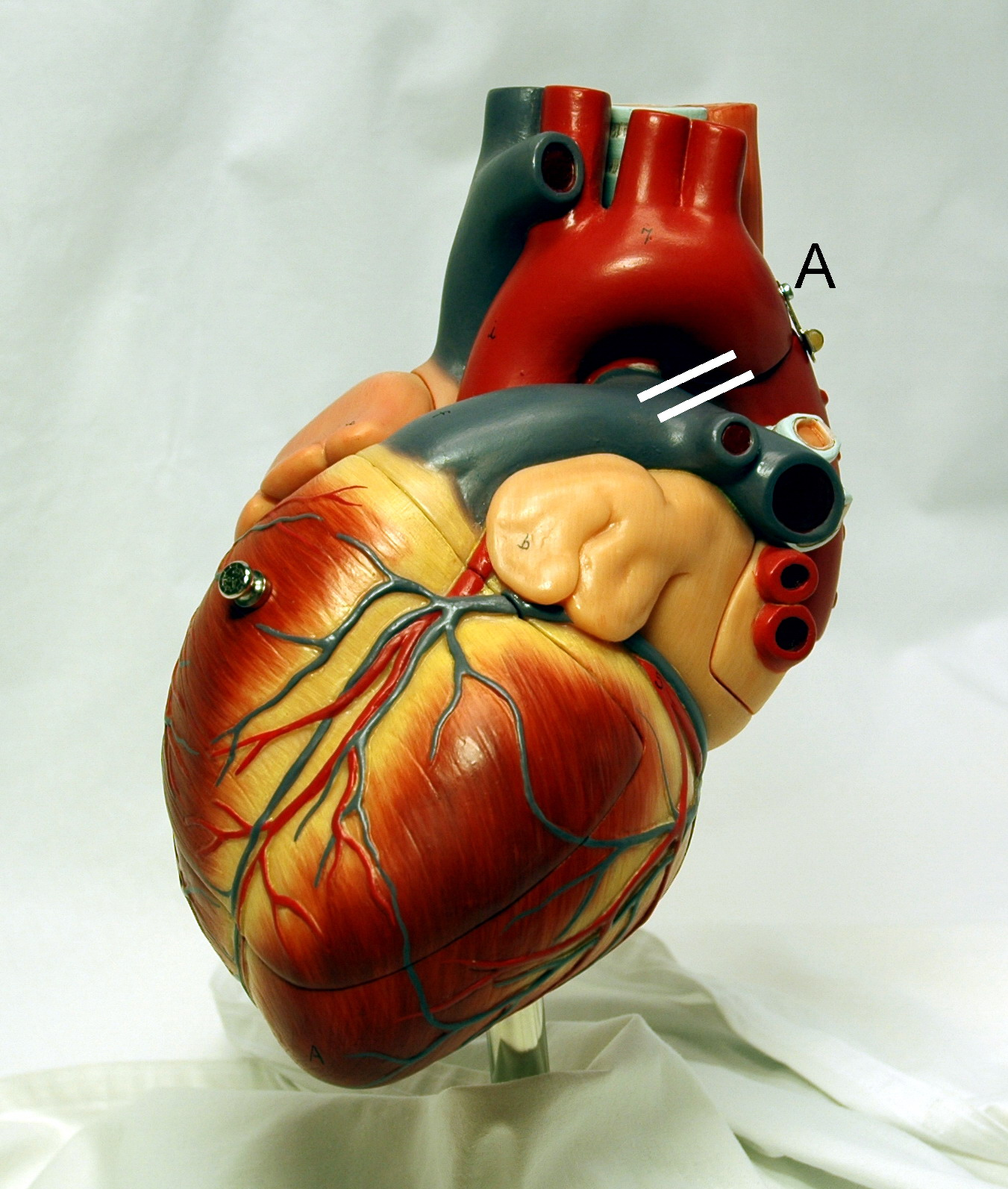 Photograph of a heart model, with position of a persistent ductus arteriosus drawn in between aorta and pulmonary artery. Keywords: en: Echocardiography, Sonography, Ultrasonography, Medical Ultrasound, Cardiology, persisting ductus arteriosus de: Echokardiographie, Sonografie, Sonographie, Ultraschall, Kardiologie, ductus arteriosus